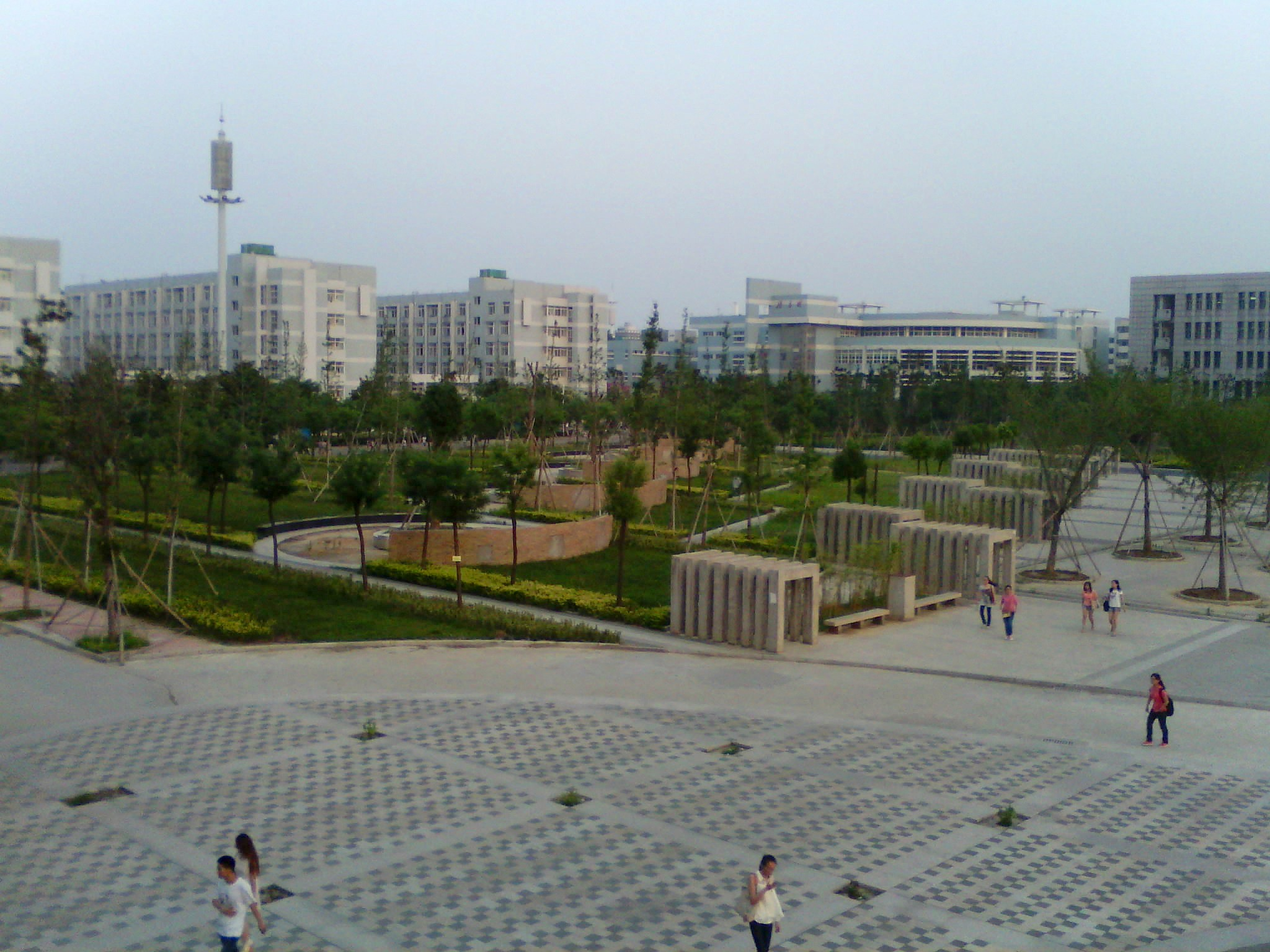 Fuyang Teachers College, West Campus, view of part of the campus including some dormitories (left). The West Campus is the larger and newer of the two campuses at Fuyang Teachers College.